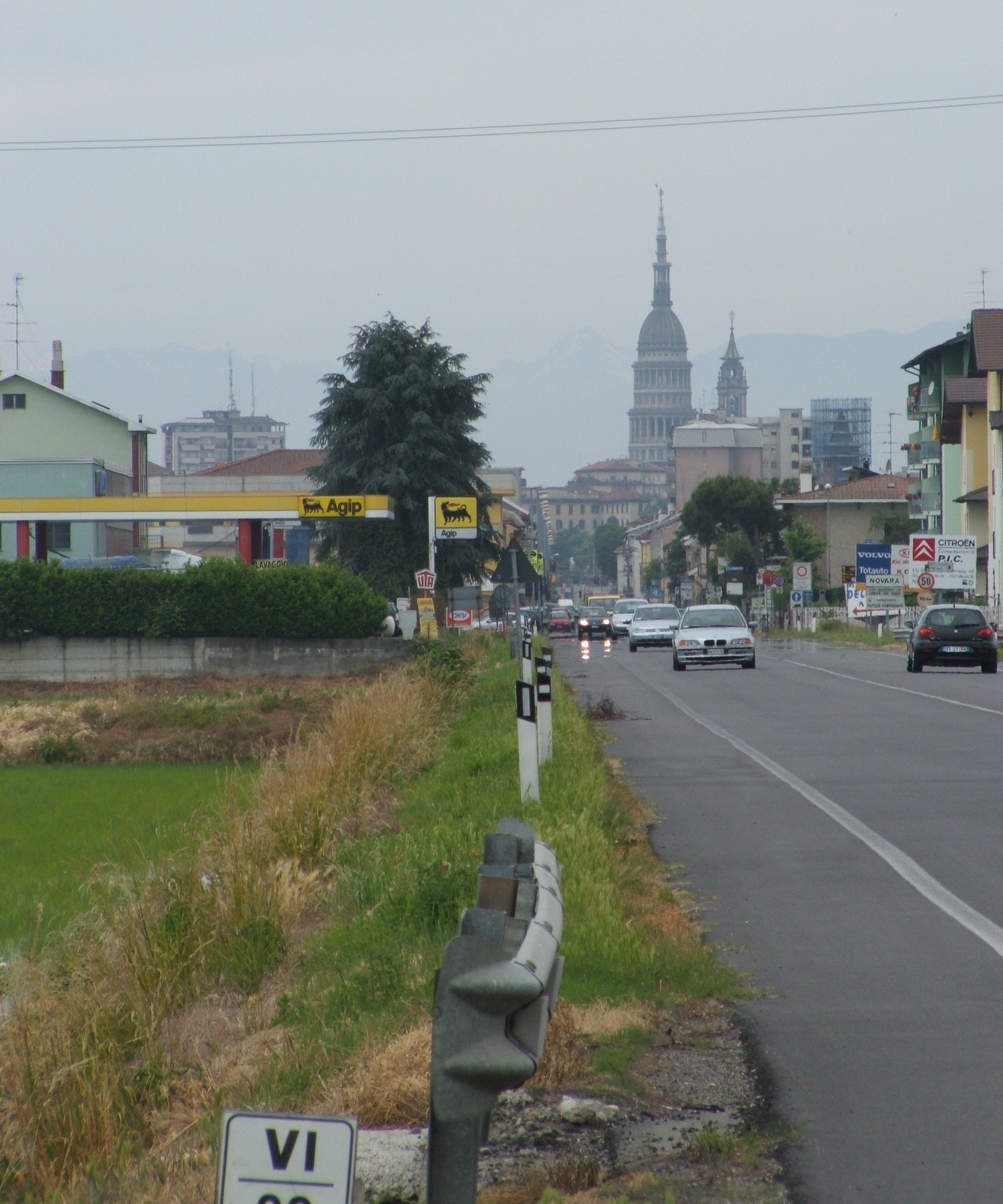 Novara, Piedmont, Italy - State road 11 (SS 11) - in the background you can see the dome of saint Gaudenzio church